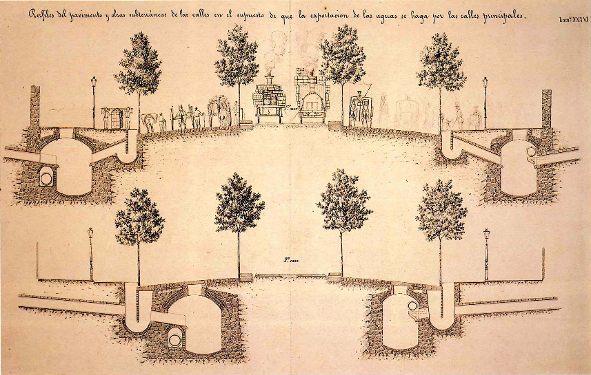 Eixample map of Barcelona. Street section from a "Plan Cerdà" project. 1859.